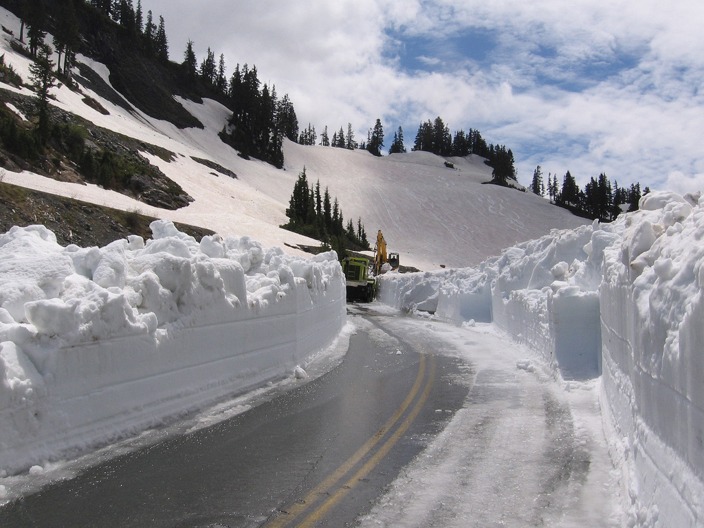 Mont Baker - Route d'état 542, Washington, USA